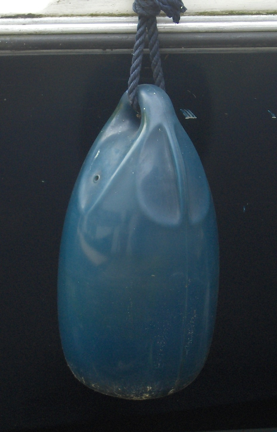 Ship fender.